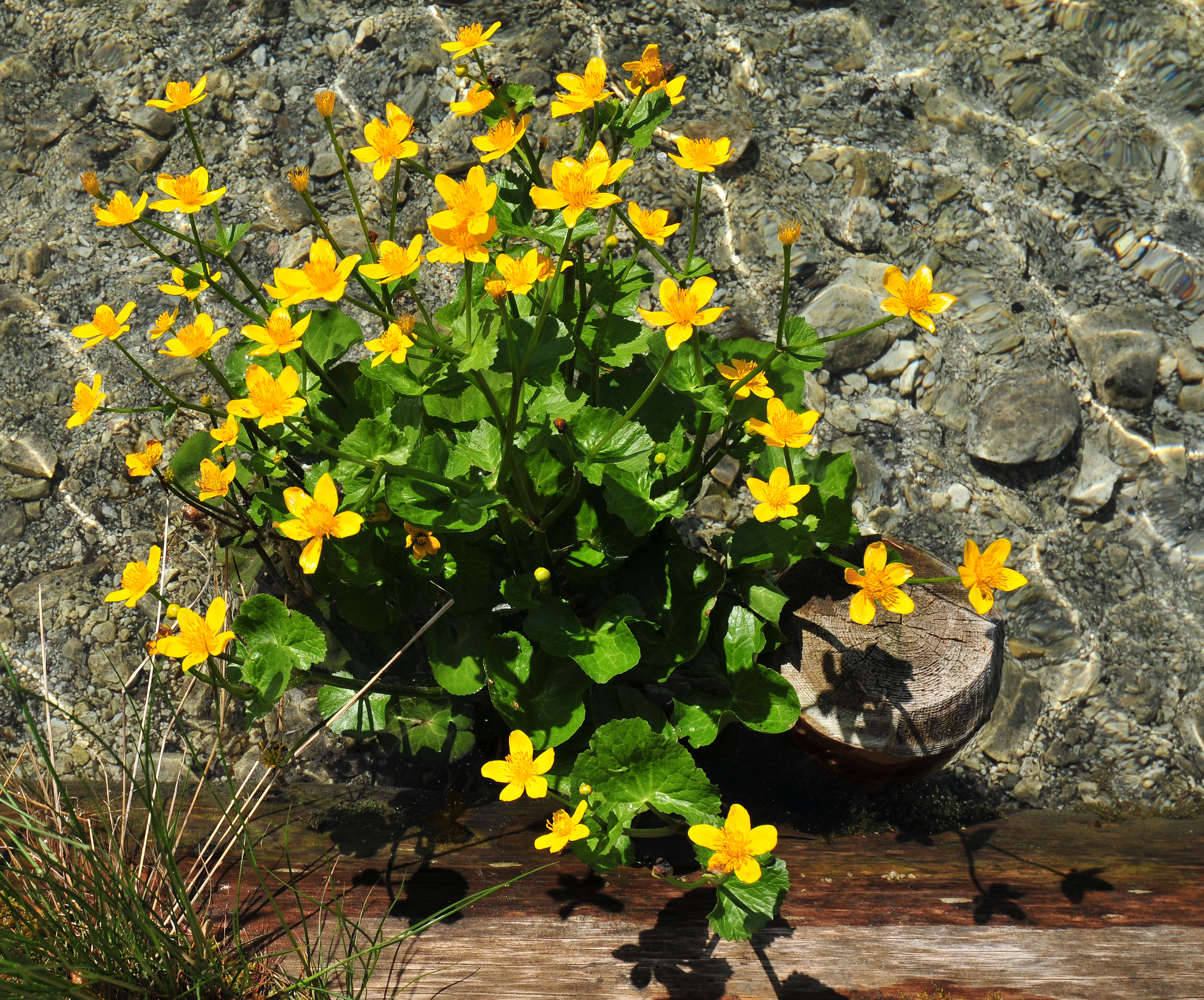 Marsh-marigold · čeština: Blatouch bahenní · dansk: Eng-Kabbeleje ·